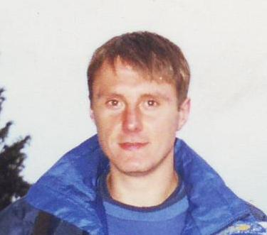 Alyaksandr Khatskevich